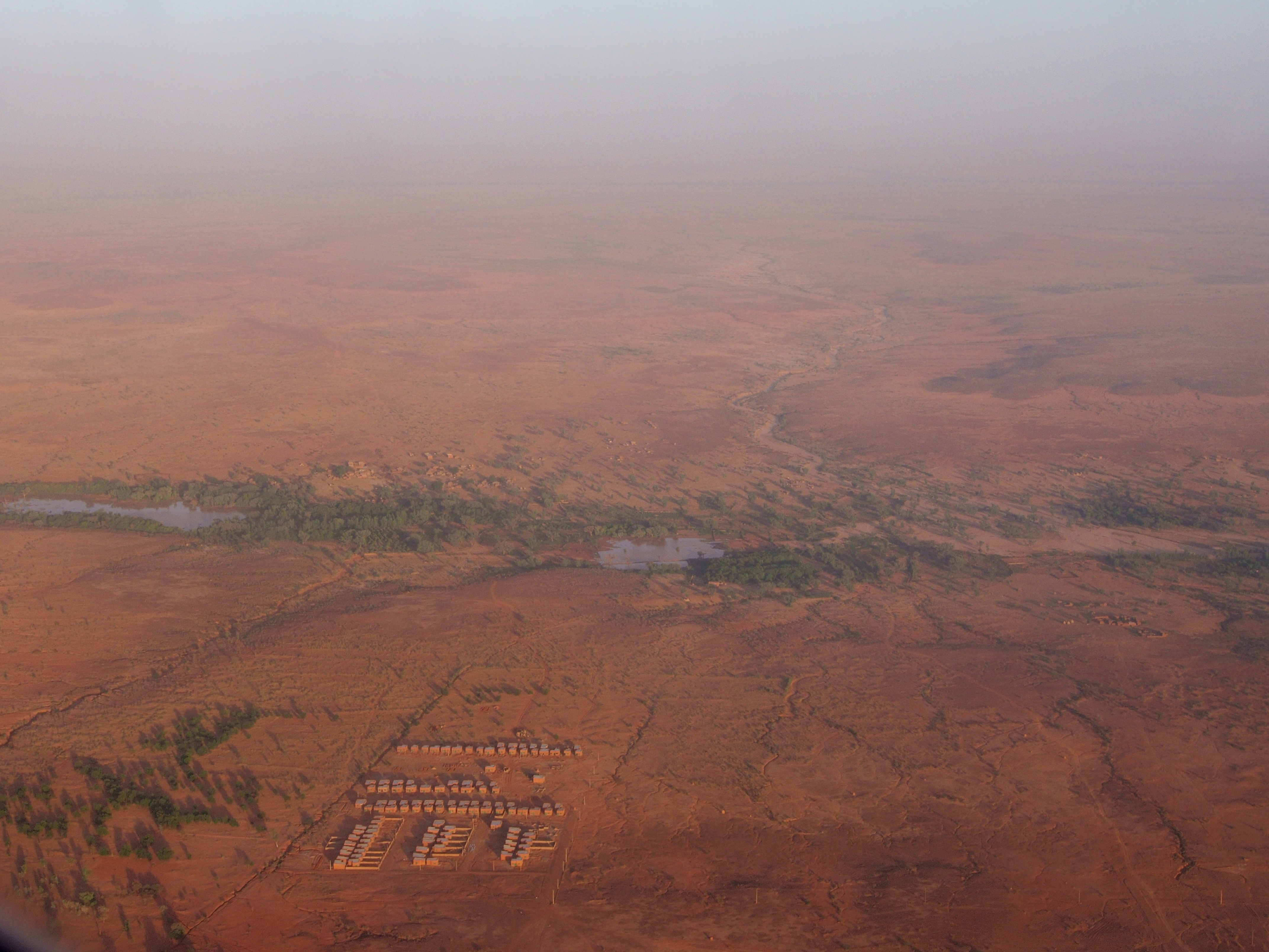 aerial view of the landscape of Niger, about 12 miles away from Diori Hamani Airport, Niamey (IATA: NIM; ICAO: DRRN)